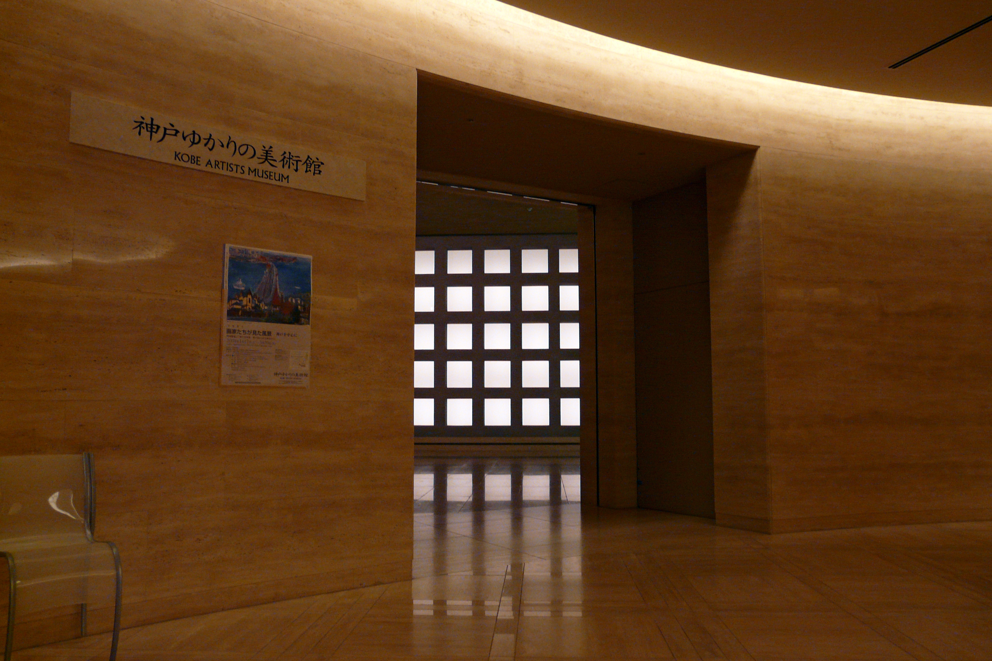 Kobe Yukari Art Museum in Rokko Island, Kobe, Hyogo prefecture, Japan